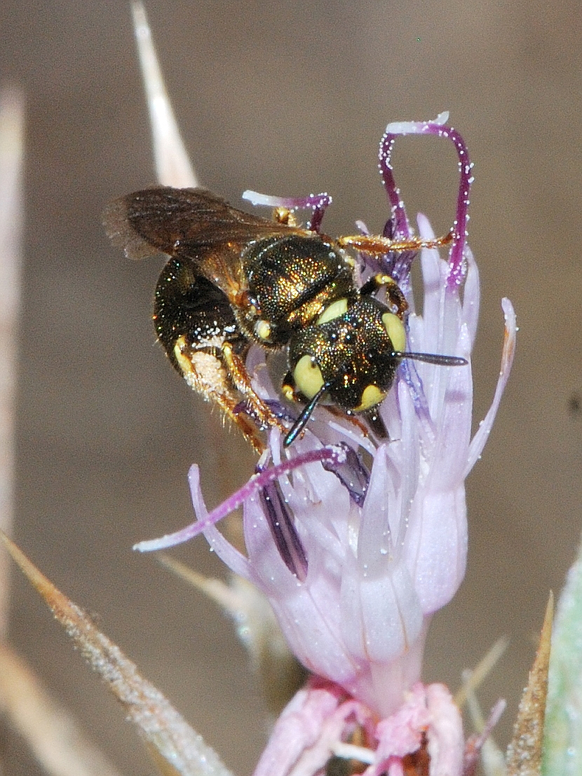 Female Ceratina bifida foraging on Carthamus tenuis, Mount Carmel, Israel, August 14, 2010.